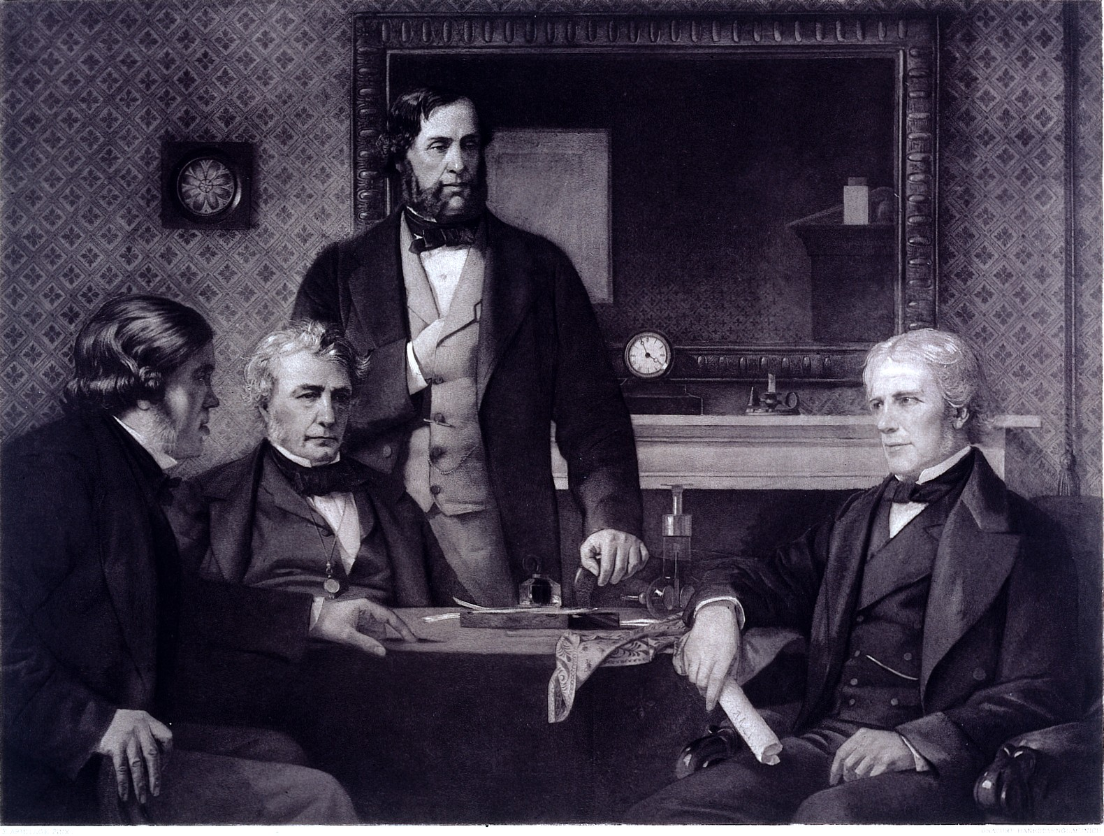 vlnr John Wrottesley, 2nd Baron Wrottesley (5 August 1798 – 27 October 1867) John Peter Gassiot (2 April 1797 – 15 August 1877) William Robert Grove (11 July 1811 – 1 August 1896) Michael Faraday (22 September 1791 – 25 August 1867) Left to right:en:John Wrottesley, 2nd Baron Wrottesley, John Peter Gassiot, William Robert Grove and Michael Faraday Wellcome Images Keywords: John Wrottesley; John Peter Gassiot; William Robert Grove; Michael Faraday; Royal Society of London (London); Edward Armitage; Hanfstaengl